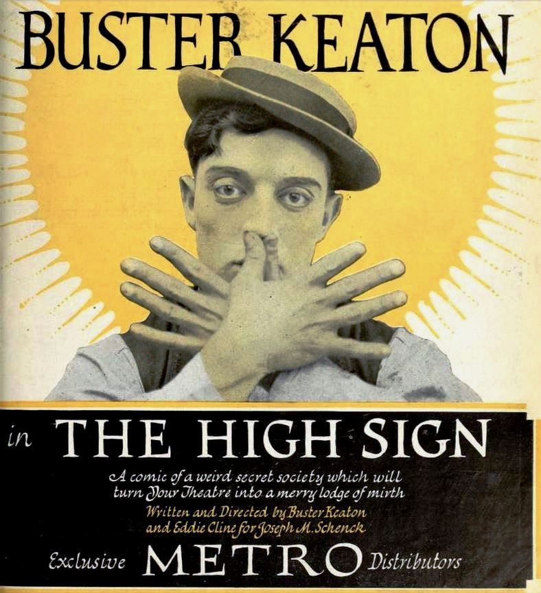 Ad for the American film The High Sign (1921) with Buster Keaton, on the front cover of the June 26, 1921 Film Daily.